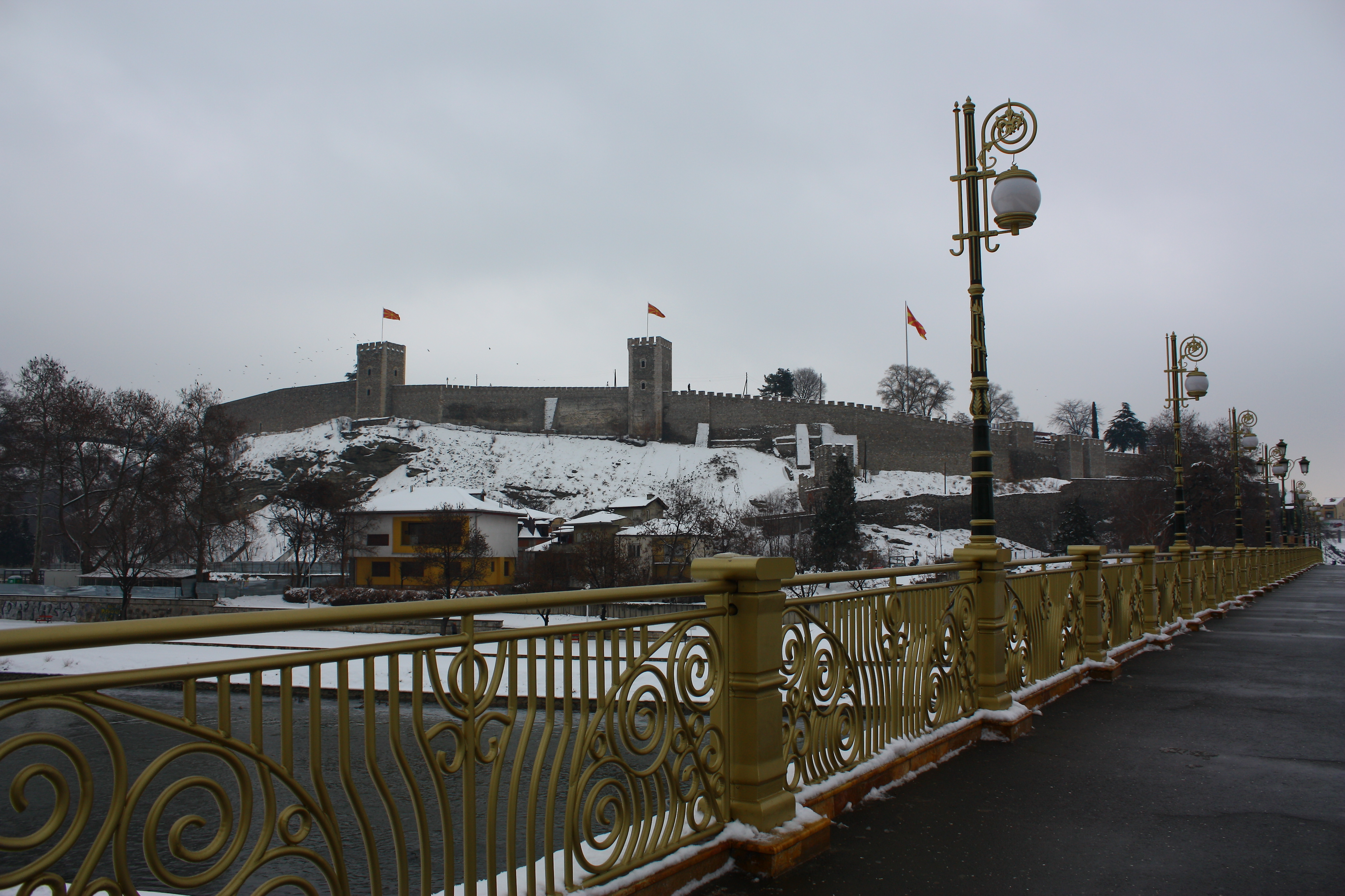 Skopje, capital and largest city of Macedonia